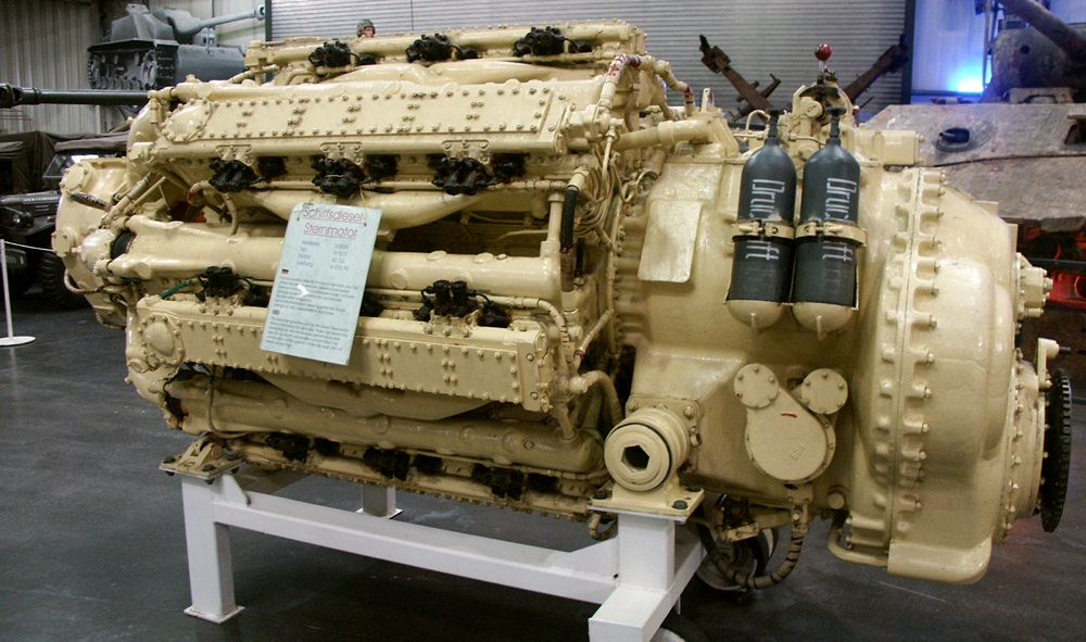 USSR Type M503 42 Cyl radial 4.000 HP engine block, primarily used for battleships(sic) of the Russian navy. Average fuel consumption claimed to be about 680l crude diesel per operating hour